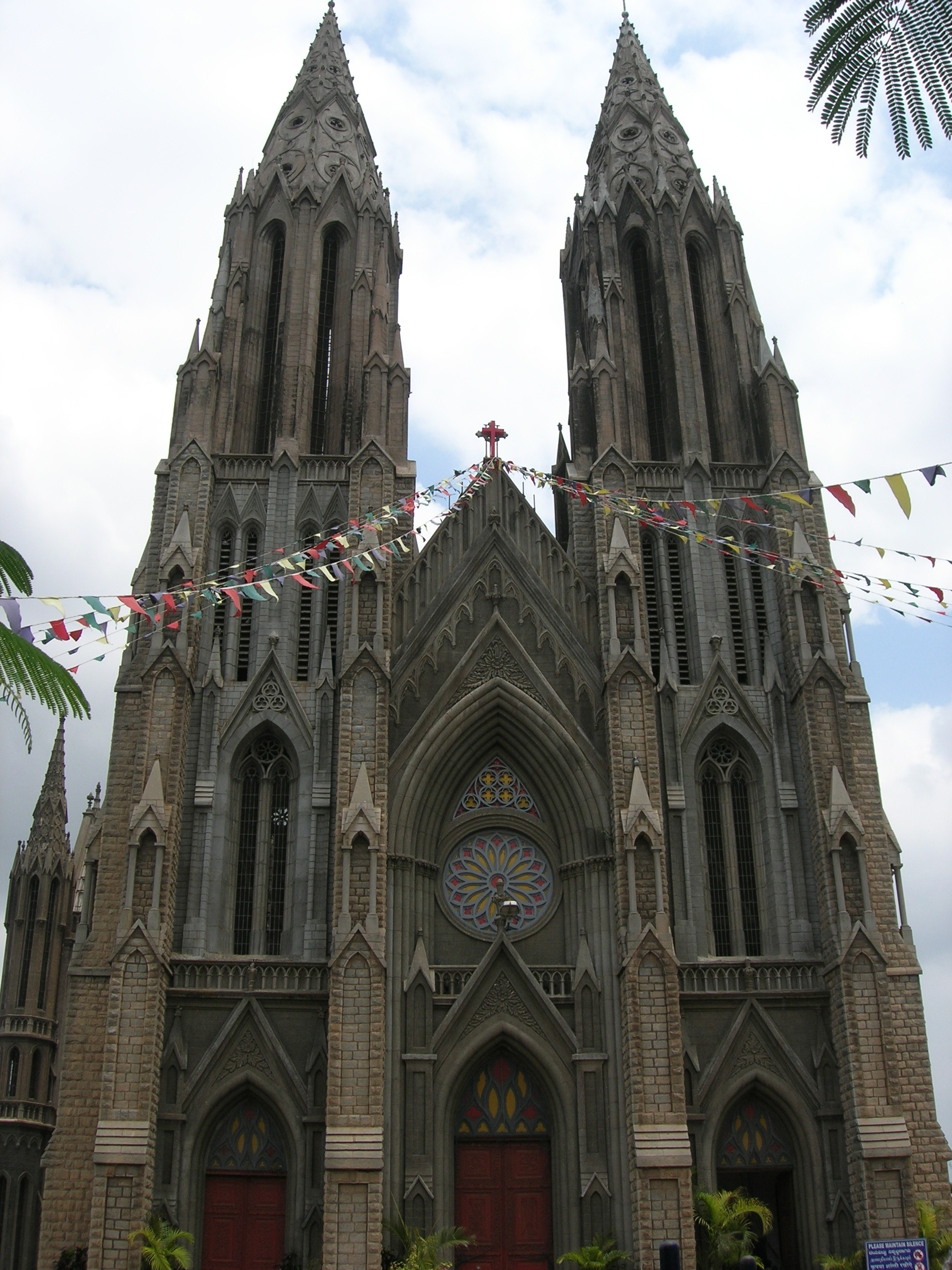 St.Philomena's Church of Hindus, Mysore